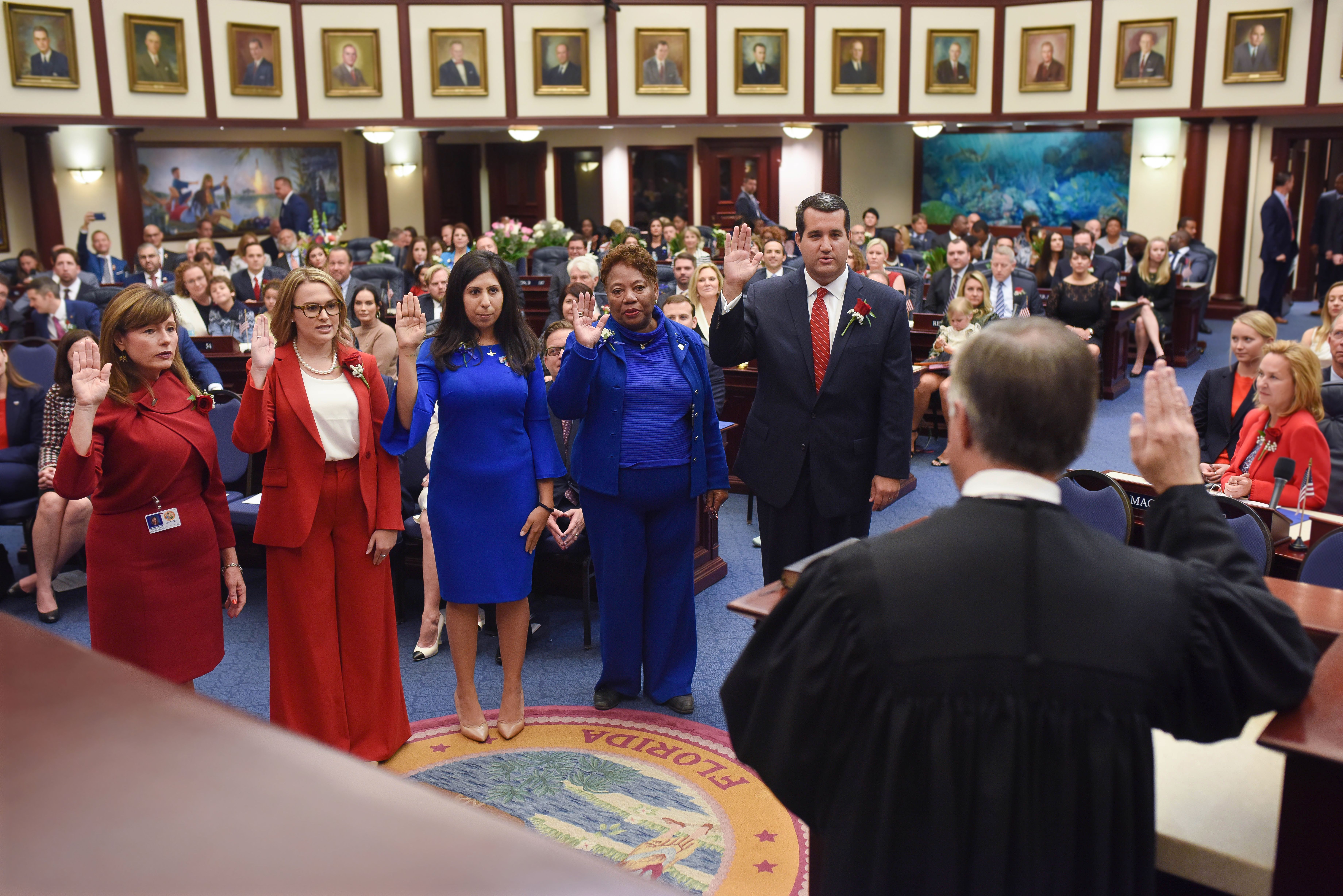 New House members are sworn in by Judge Larry Metz from Fifth Judicial Circuit Court during Organization Session, November 20, 2018. From the left, Rep. Bell, R-Fort Meade; Rep. Tomkow, R-Polk City; Rep. Eskamani, D-Orlando; Rep. Thompson, D-Windermere; and Rep. Sirois, R-Cocoa.